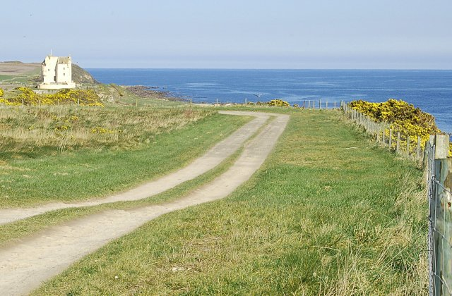 Ballone Castle Ballone Castle is a Z plan castle and is thought to have built by the Dunbars of Tarbat in the late 1500. It came under MacKenzie control in 1623 and had fallen into ruin around the time of the second Jacobite revolt. It has now been beautifully restored as private build and looks fantastic.